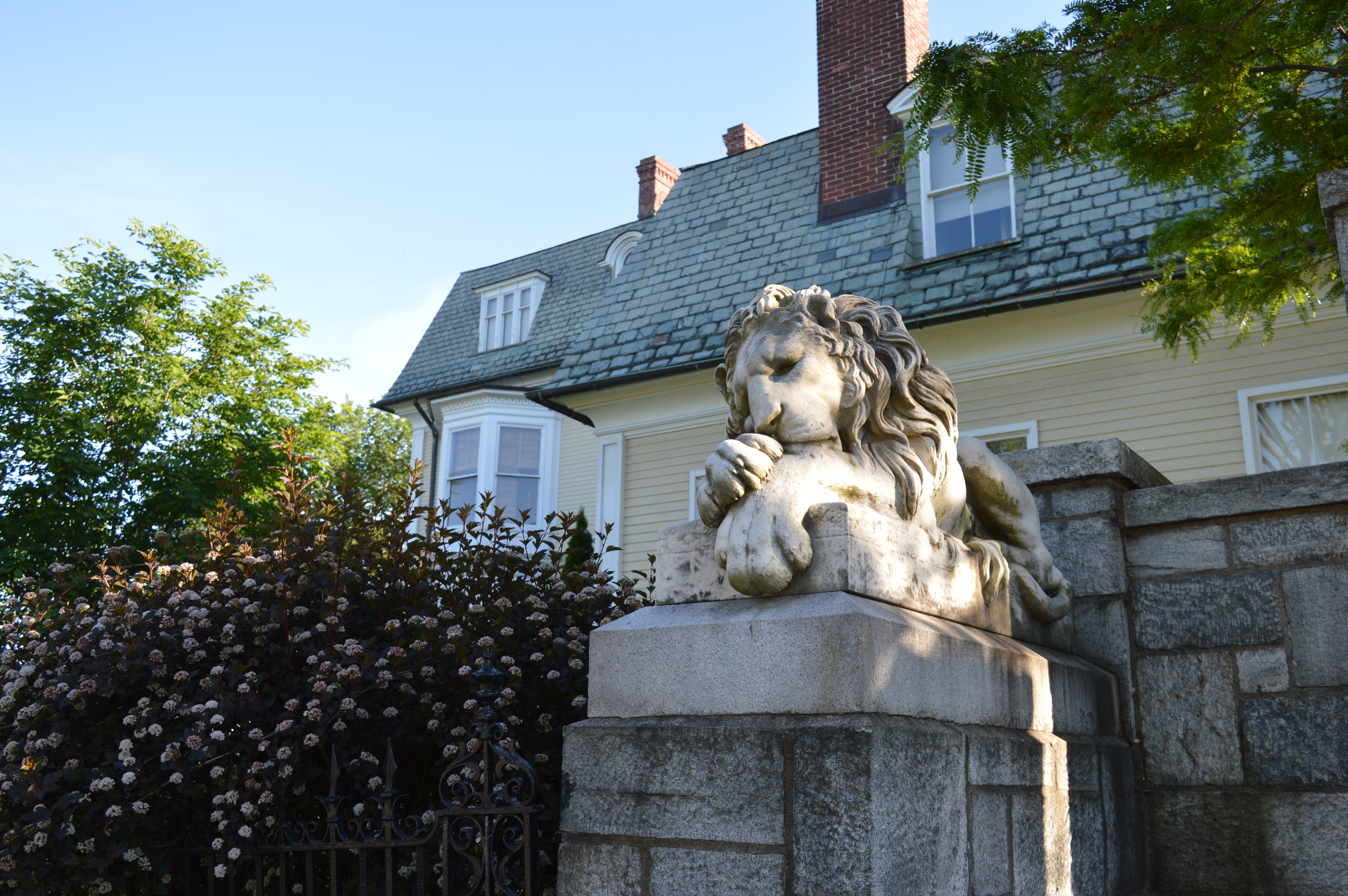 The Sleeping Lion, sinister to the Cabot Street entrance, one of two marble lions purchased by Sarah Skinner in Rome in the 1880s; they are copies of the lions of the Tomb of Pope Clement XIII.